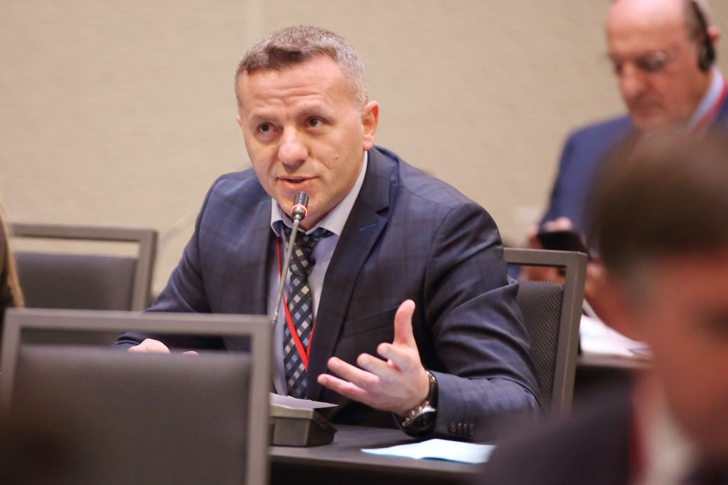 President of National Democratic Revival (RDK)